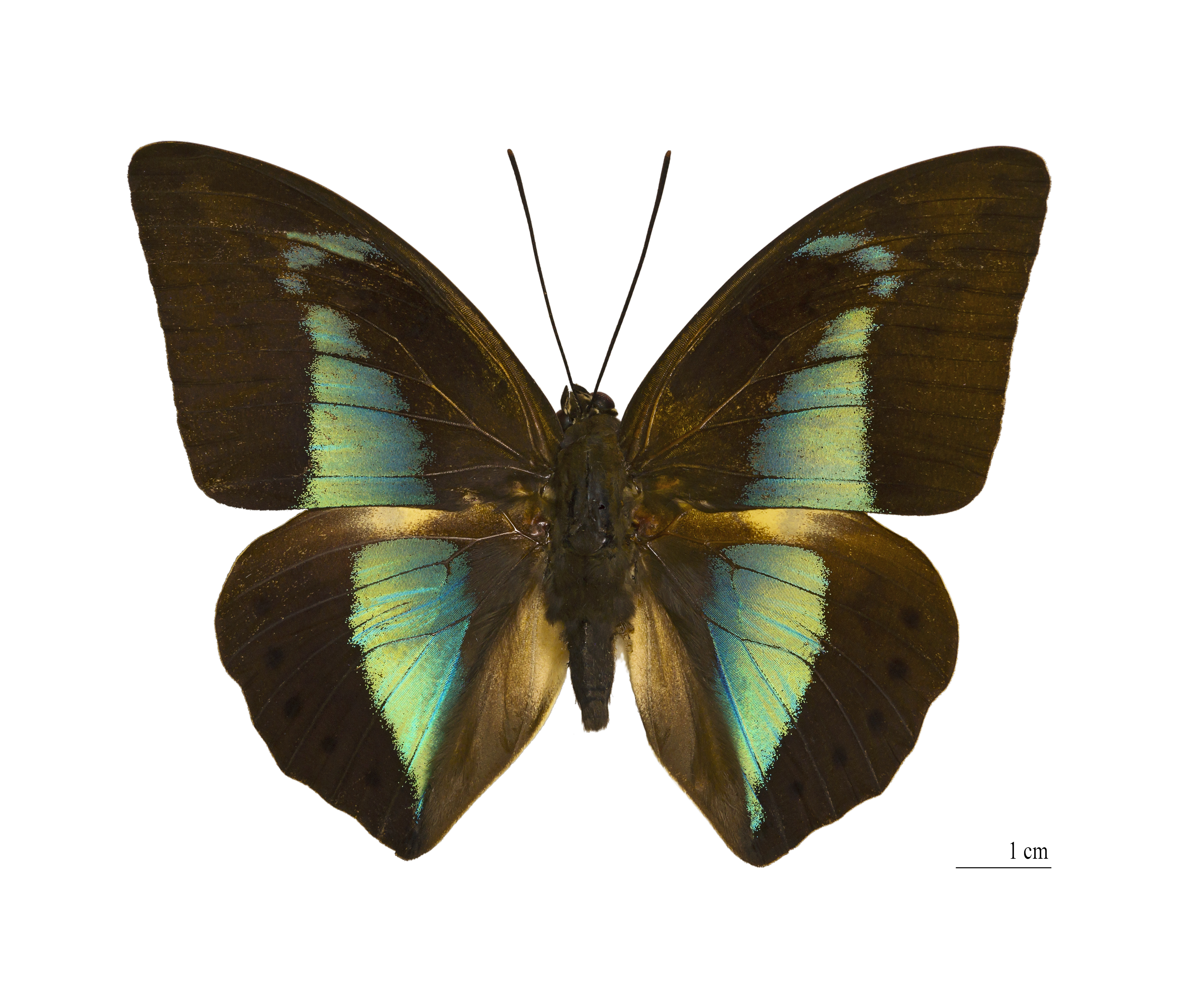 Male specimen - Dorsal side Locality: Obidos, Pará, Brasil